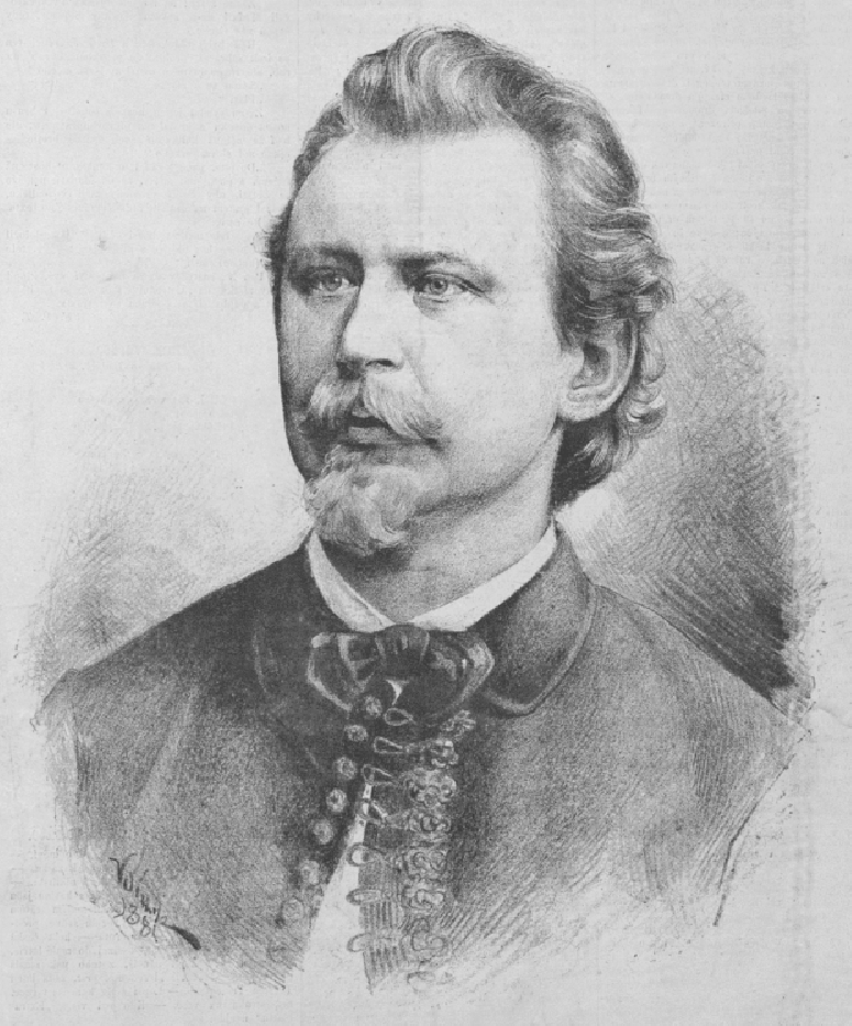 Václav Vlček (1839-1908), Czech writer and editor.